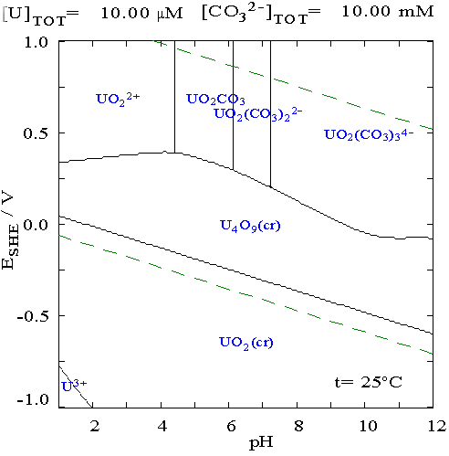 I drew it, this is the diagram for U in carbonate media